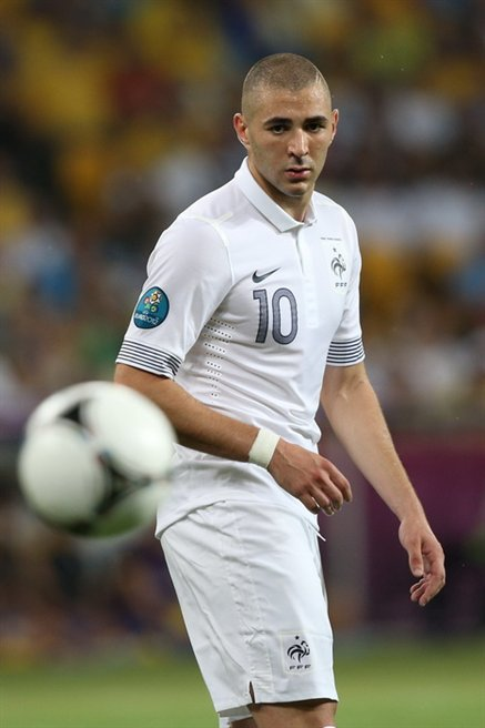 Karim Benzema at the Euro 2012 match against Sweden